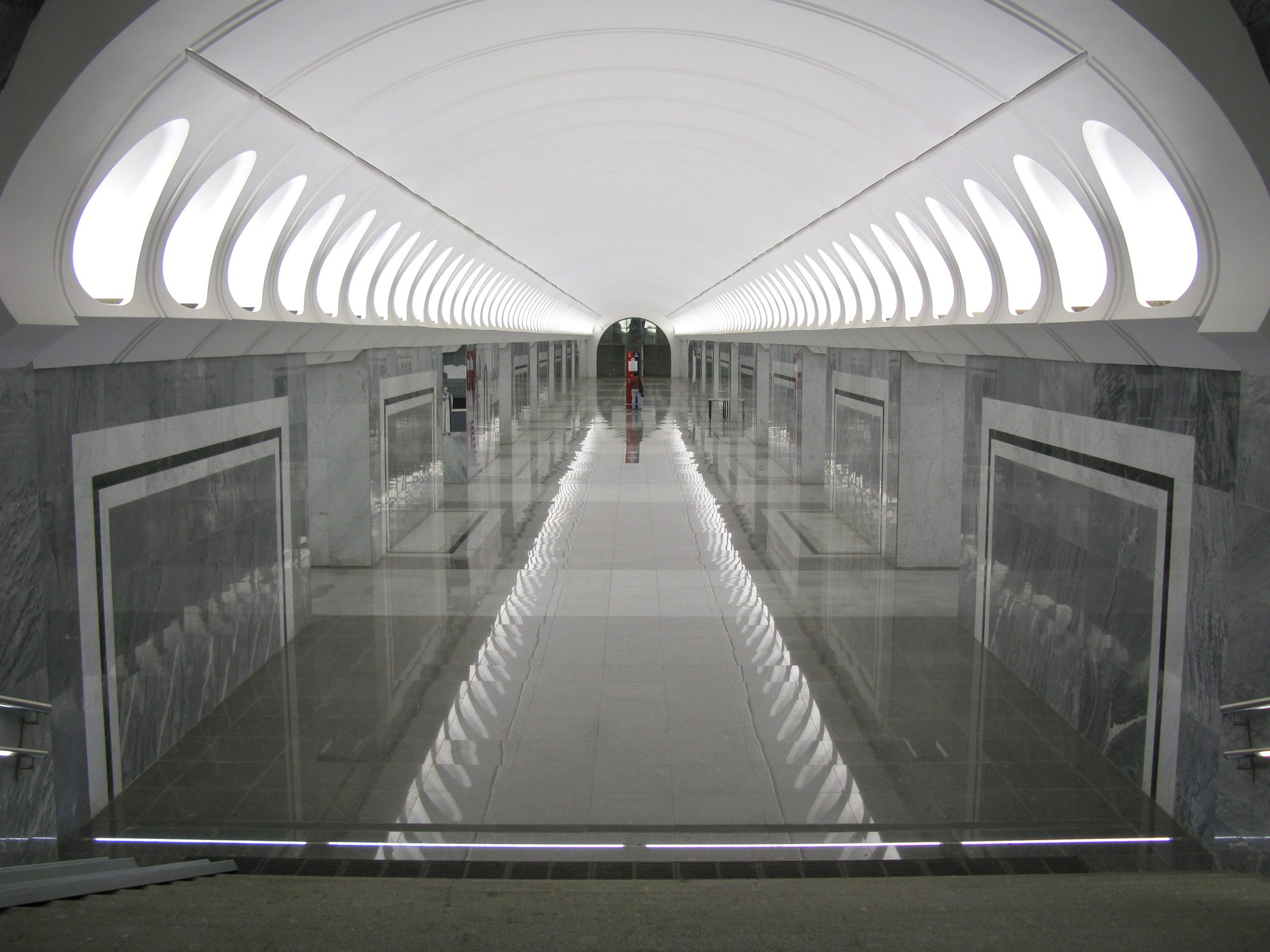 "Dostoyevskaya" station of Moscow Metro